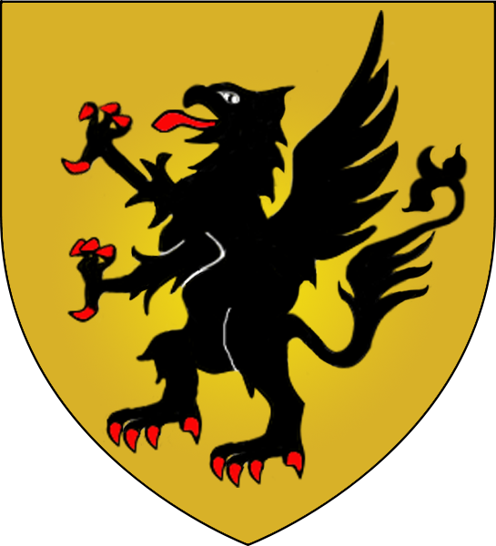 Coat of arms of the municipality of Kayl, Luxembourg